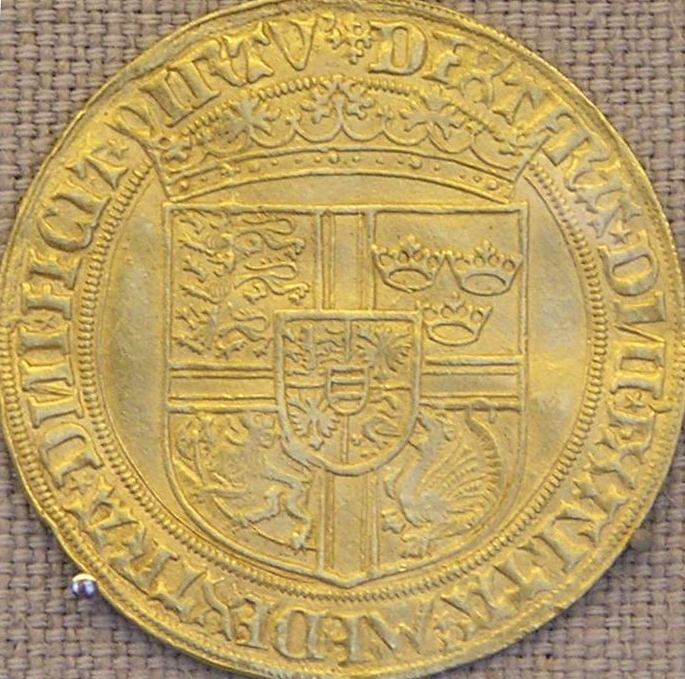 Coat of Arms on the rear side of gold coin from 1496, 1502 or 1508 (?) issued by Danish king Kong Hans (1483-1513) with face value "1 Nobel".